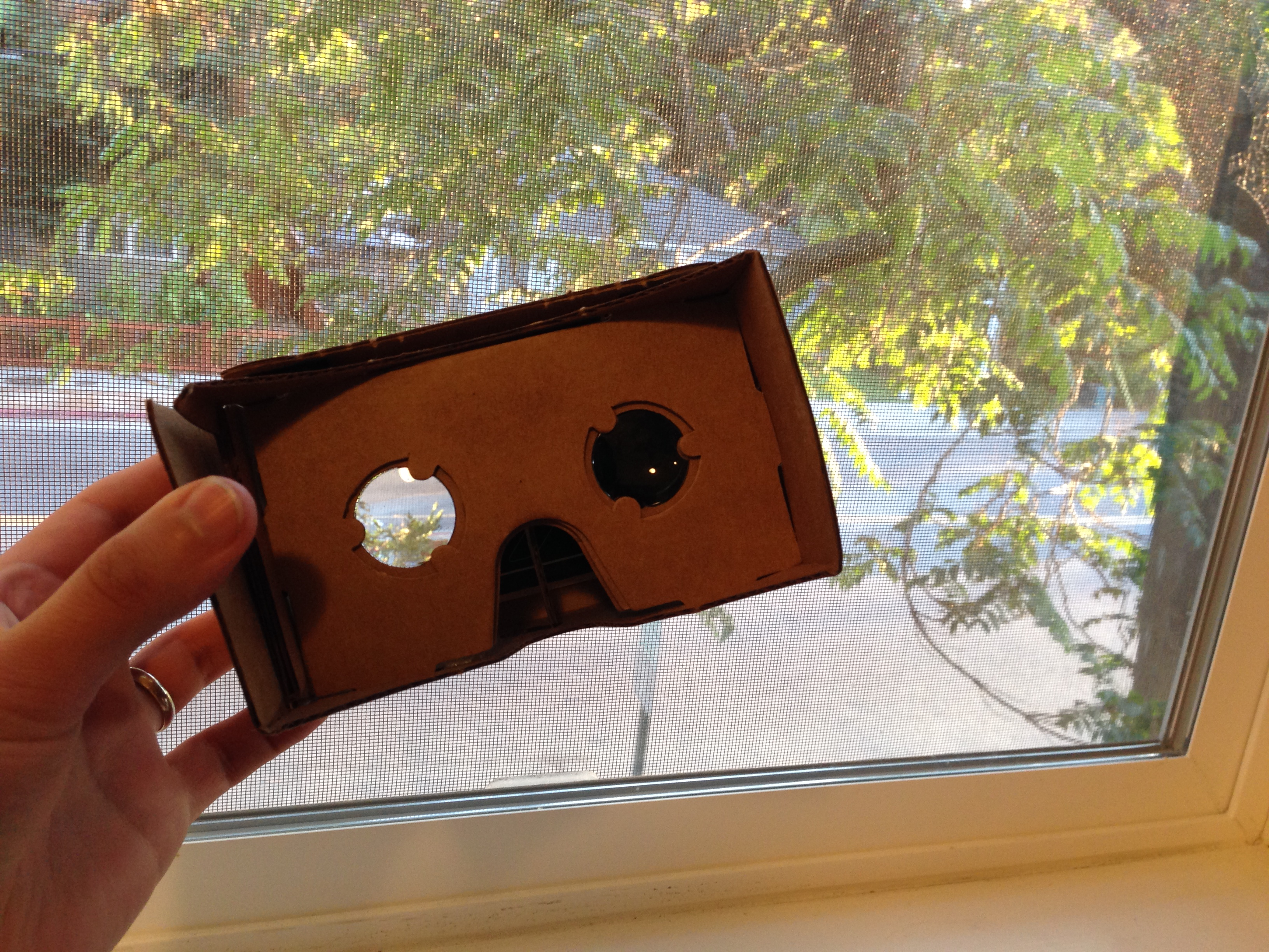 About the size of a human hand. The left lens shows background light because the cardboard has a cutout here for the smartphone's camera.